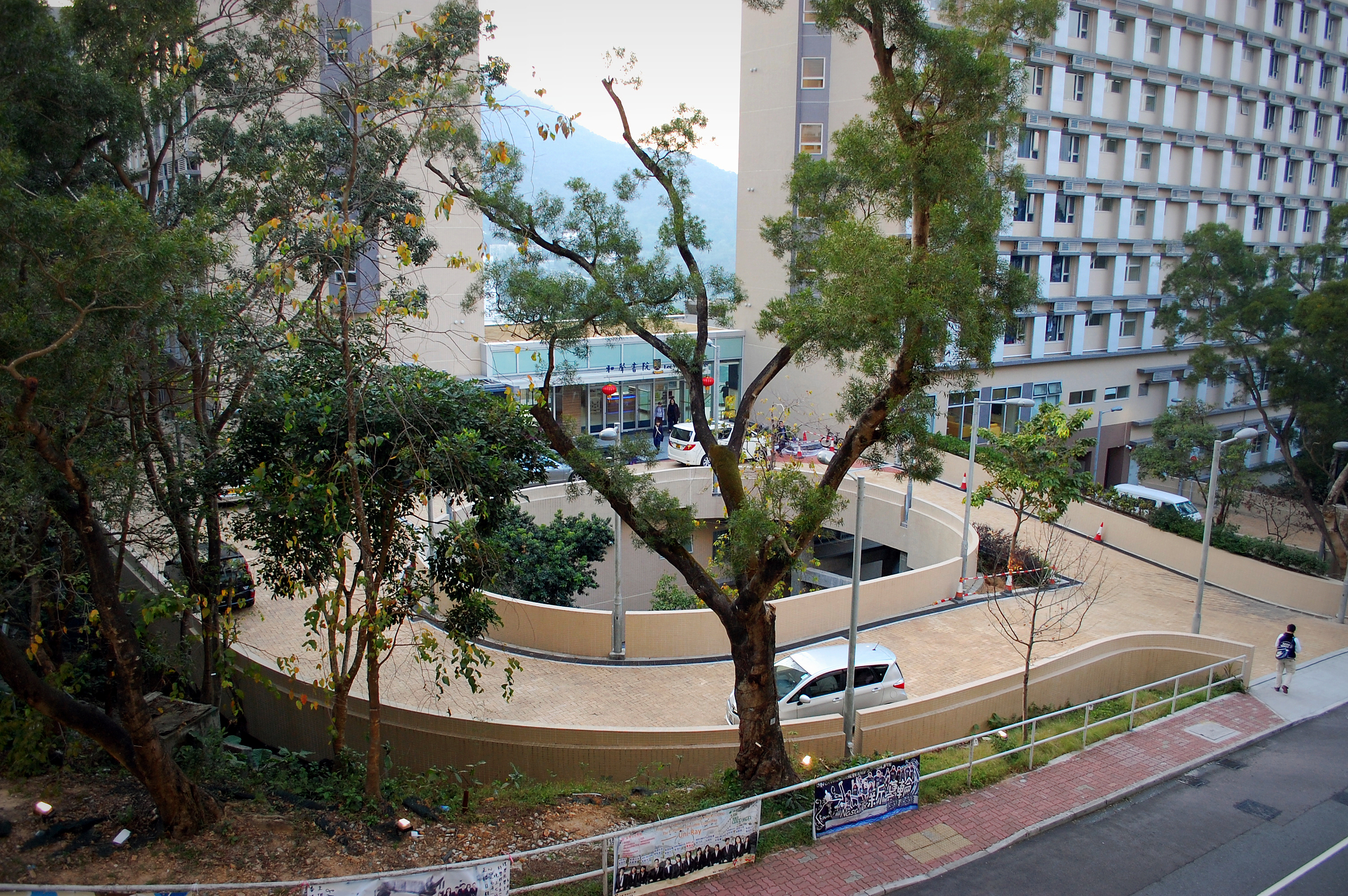 Lee Woo Sing College driveway. 中文（香港）: 和聲書院私家車道。